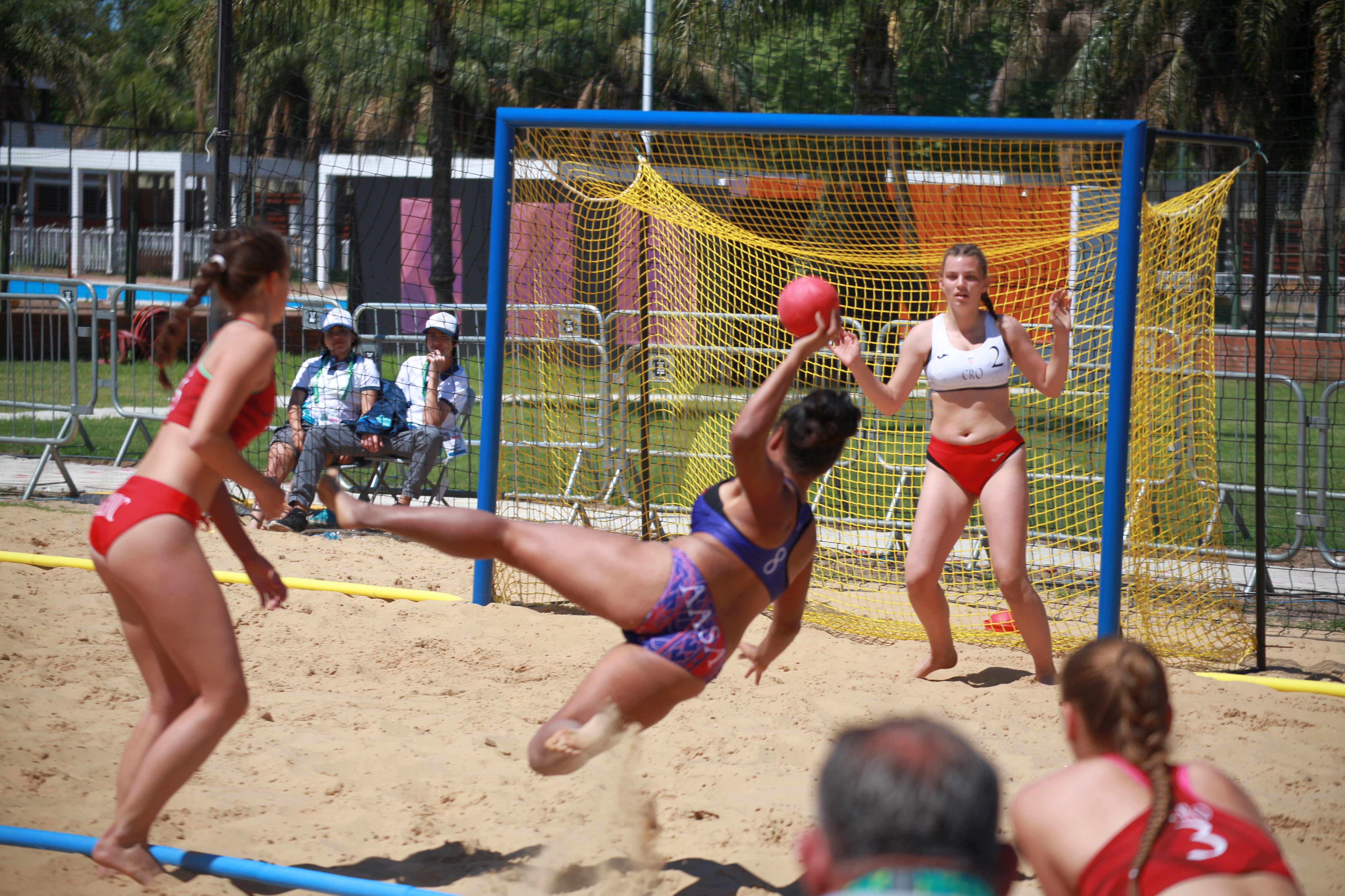 Beach handball at the 2018 Summer Youth Olympics at 10 October 2018 – Girls Preliminary Round Group A – Croatia-American Samoa 2:0